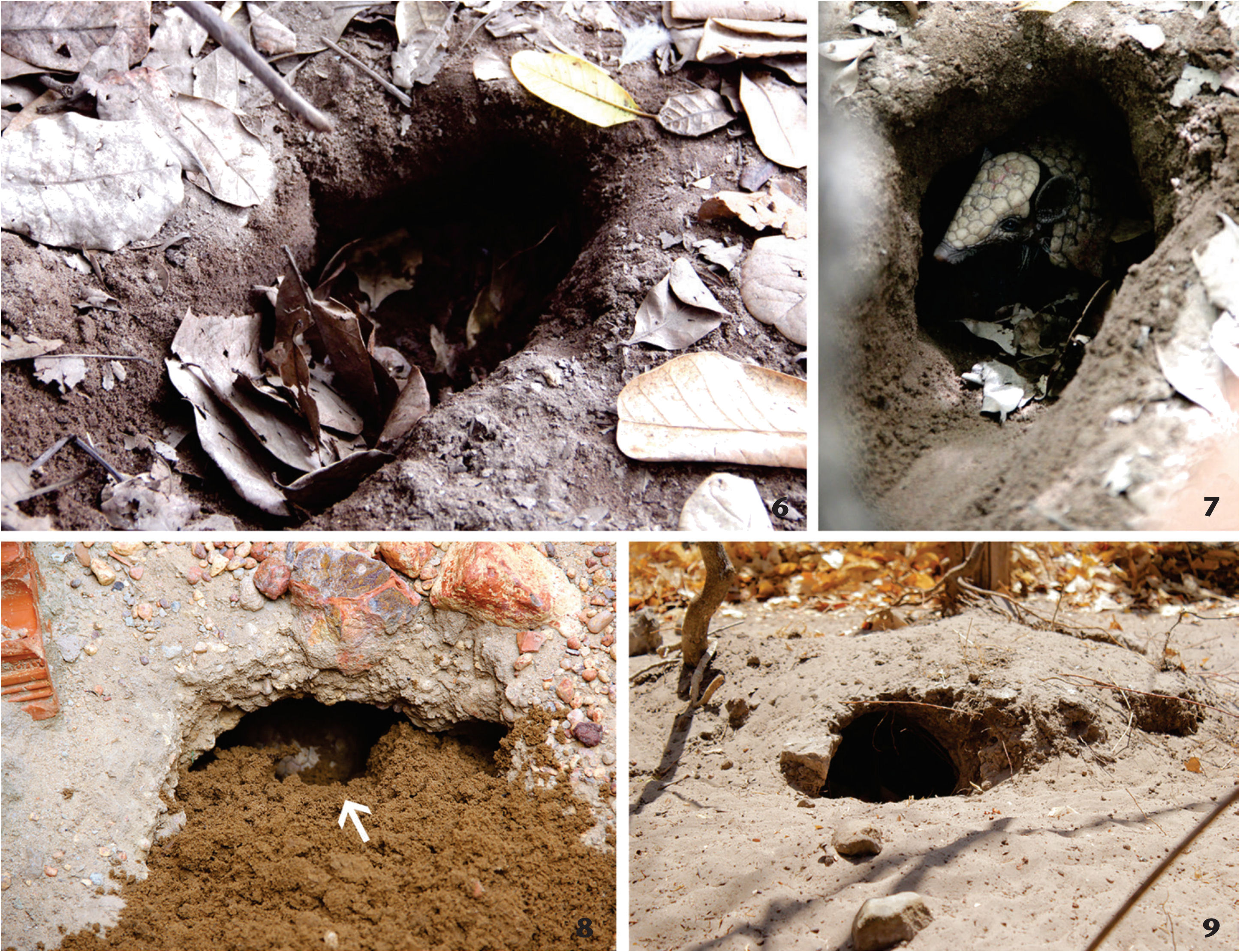 Burrow of Tolypeutes tricinctus with entrance covered by leaves at Buriti dos Montes, Piauí (6). Animal leaving the burrow after removal of the leaf litter cover (7). An individual of Tolypeutes tricinctus actively digging as an escape behavior at Buriti dos Montes (8). Burrow dug by Tolypeutes tricinctus in semi-captive conditions at Reserva Natural Serra das Almas, Ceará (9). dug by Tolypeutes tricinctus in semi-captive conditions at Reserva Natural Serra das Almas, Ceará